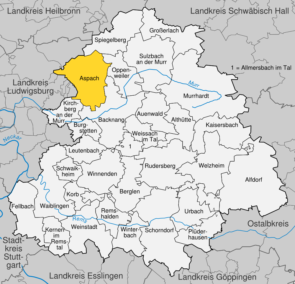 position of Aspach within the Rems-Murr-Kreis, Baden-Württemberg, Germany